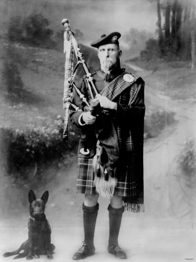 Dog and bagpiper, Bowen, 1921. Studio portrait of a bagpiper in traditional highland dress. A dog sits to the right of the picture.